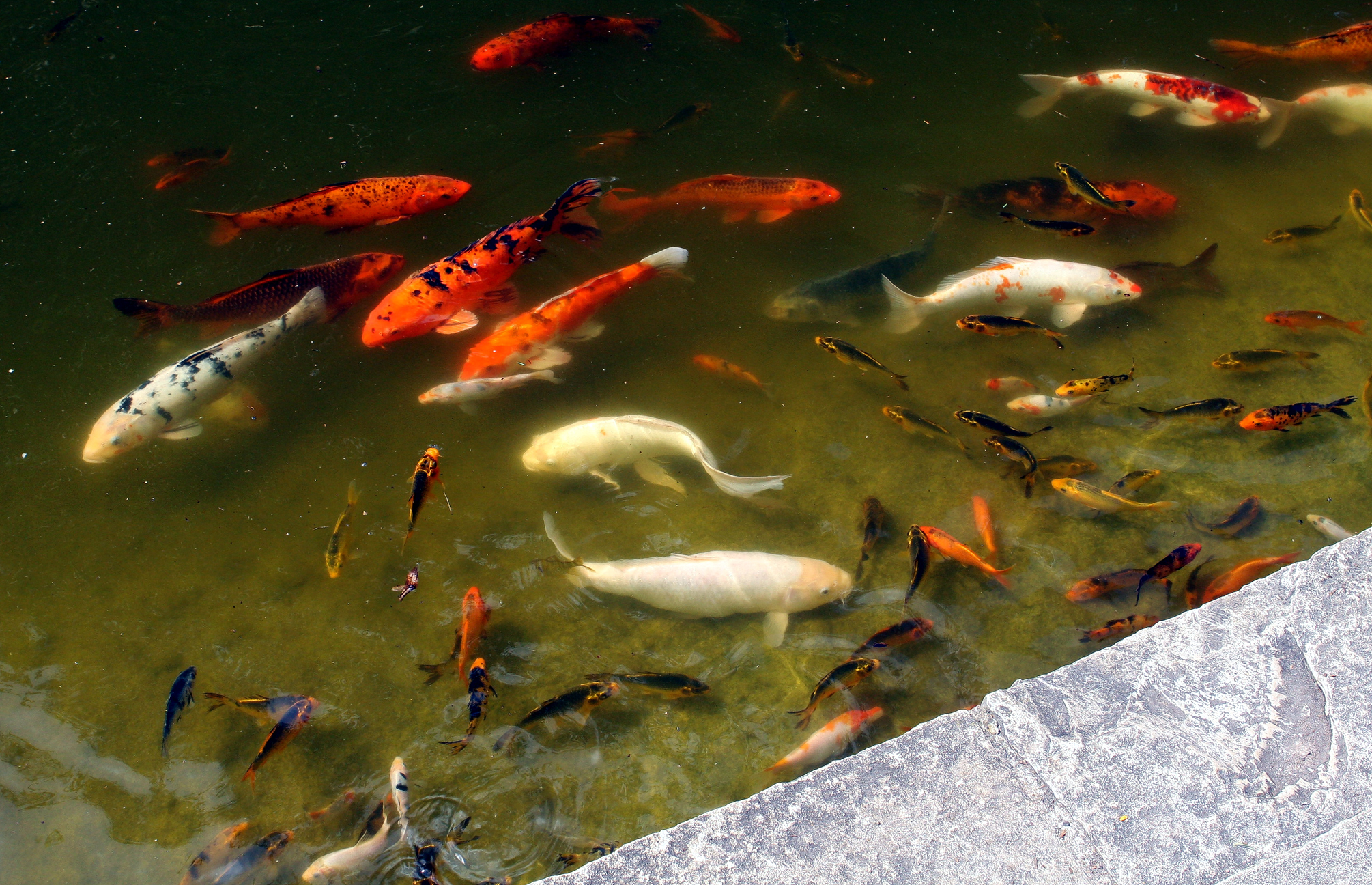 Self made image of a concrete pond stocked with colorful fish.